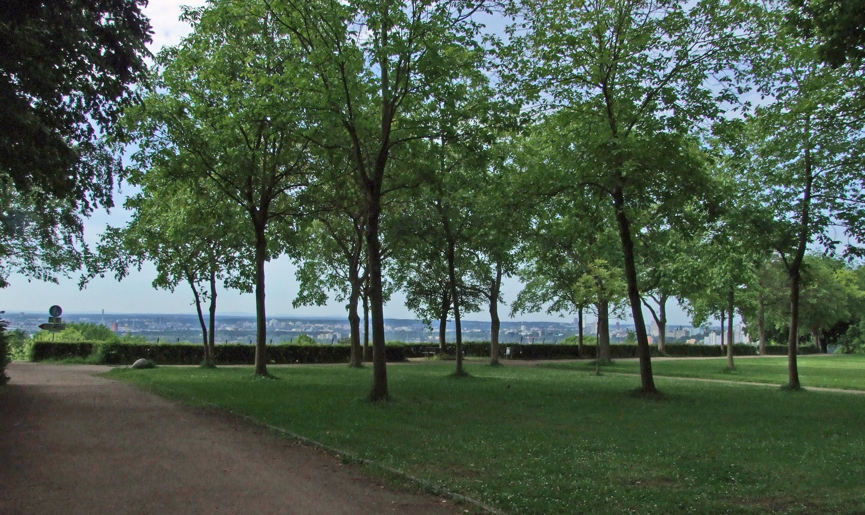 "Lohrberg" panorama-way, top of the vineyard in Frankfurt am Main-Seckbach